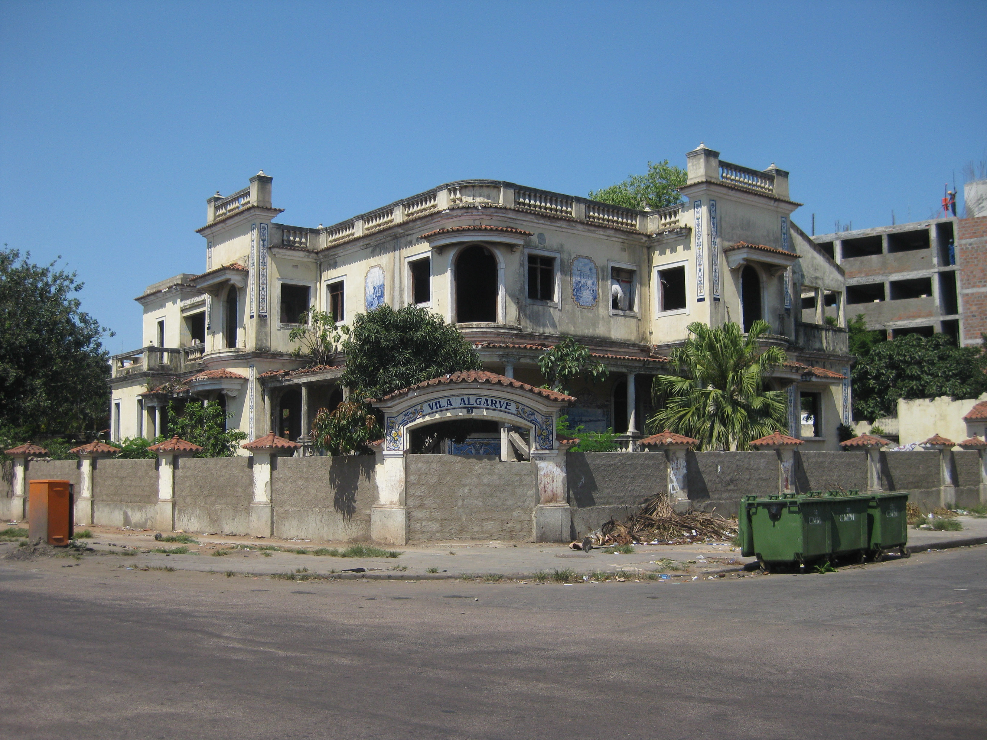 Vila Algarve is the old prison of the Policia Internacional da Defesa do Estado (State Defense International Police) in Maputo, Mozambique